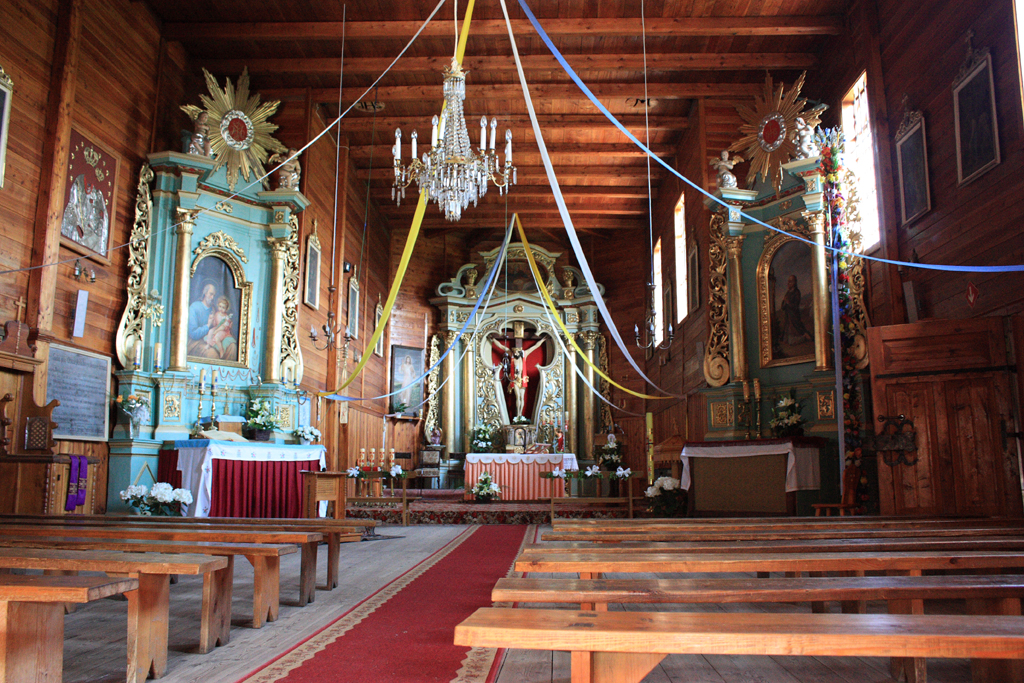 St. Bartholomew's Church, Stradow